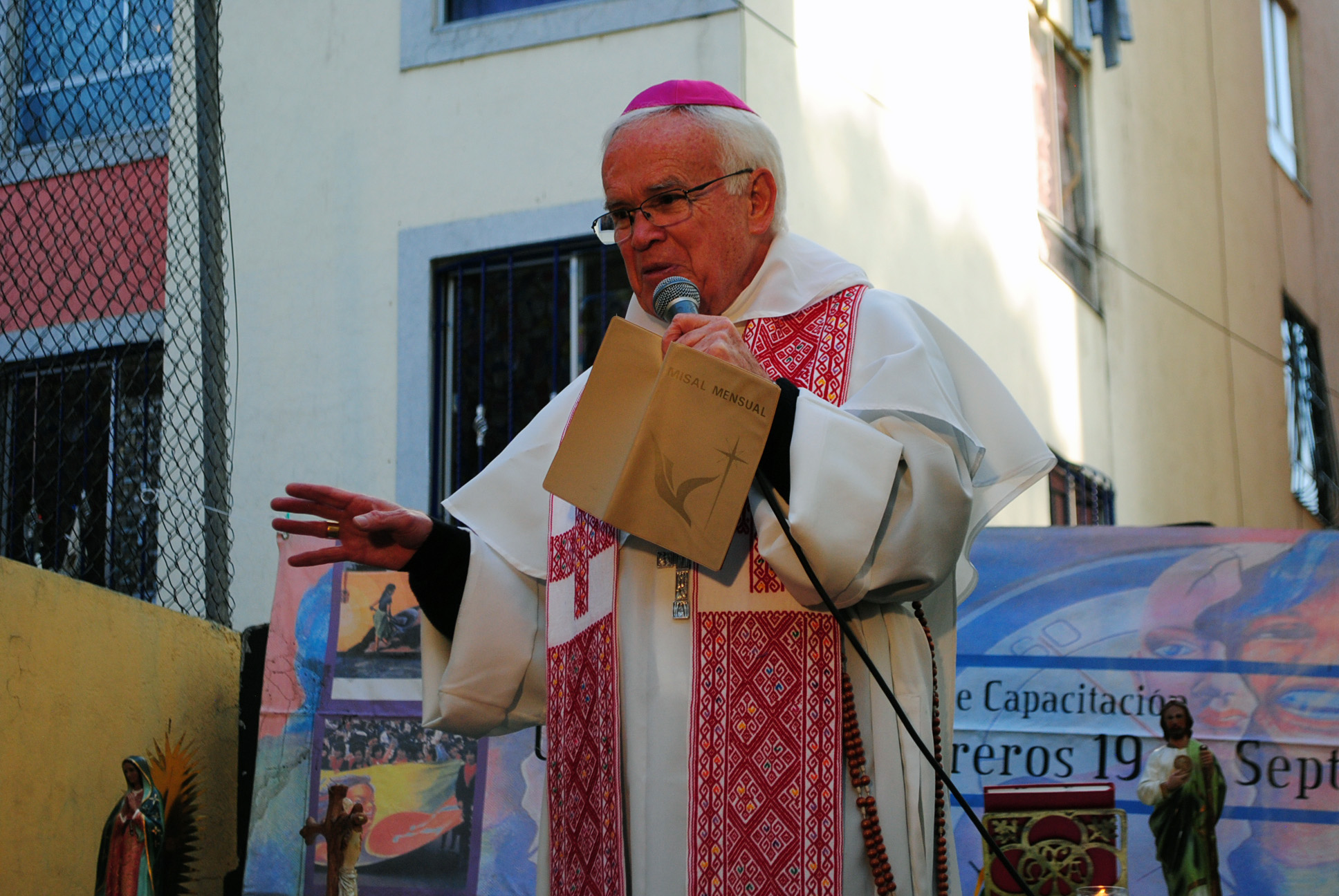 Bishop Raul Vera officiating a Mass for the deceased seamstresses in 1985. Commemorative event of the Association of Sewers and Seamstresses September 19, held on September 19, 2014, in Mexico City.